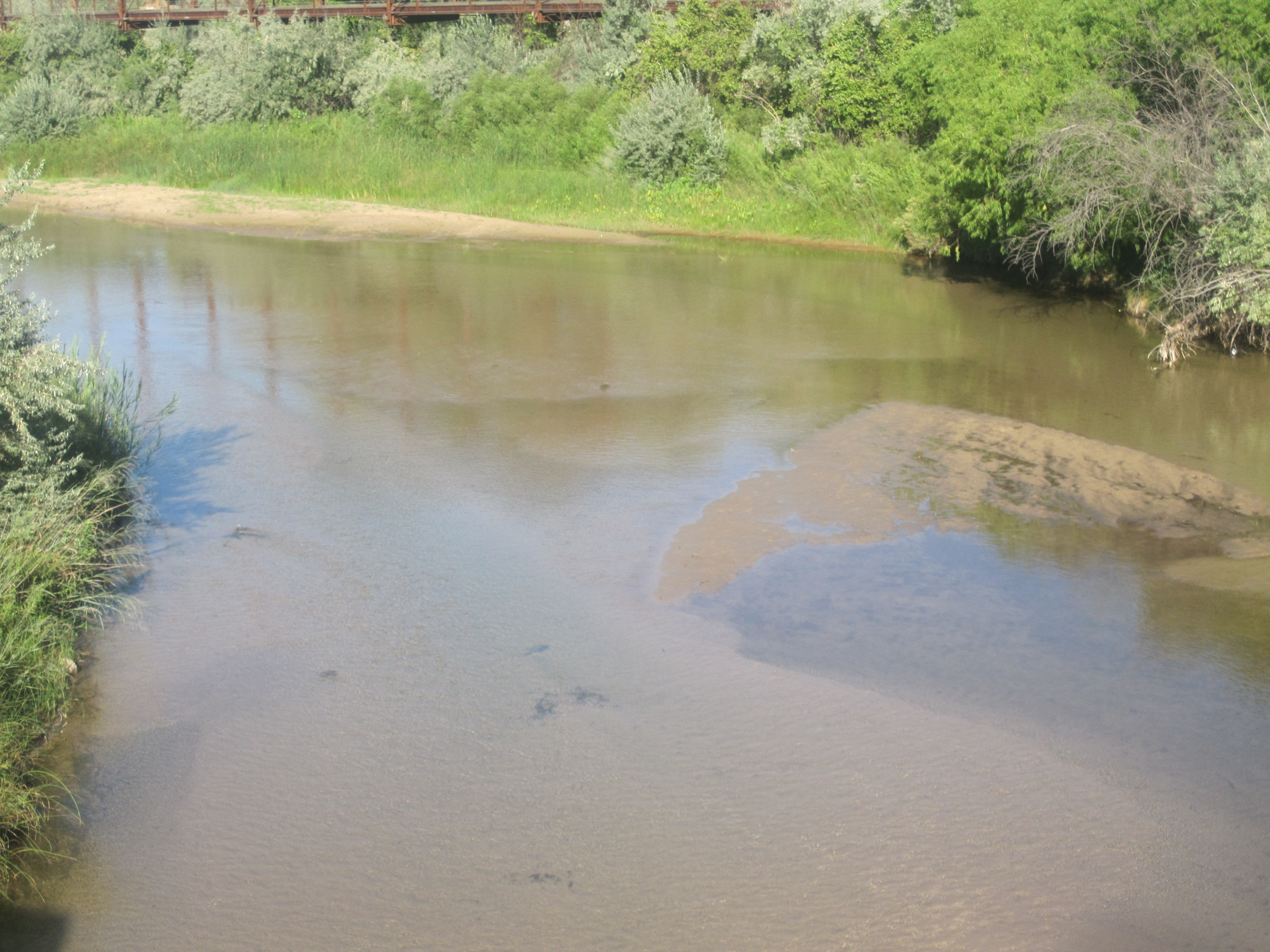 I took photo with Canon camera near Canadian, TX.